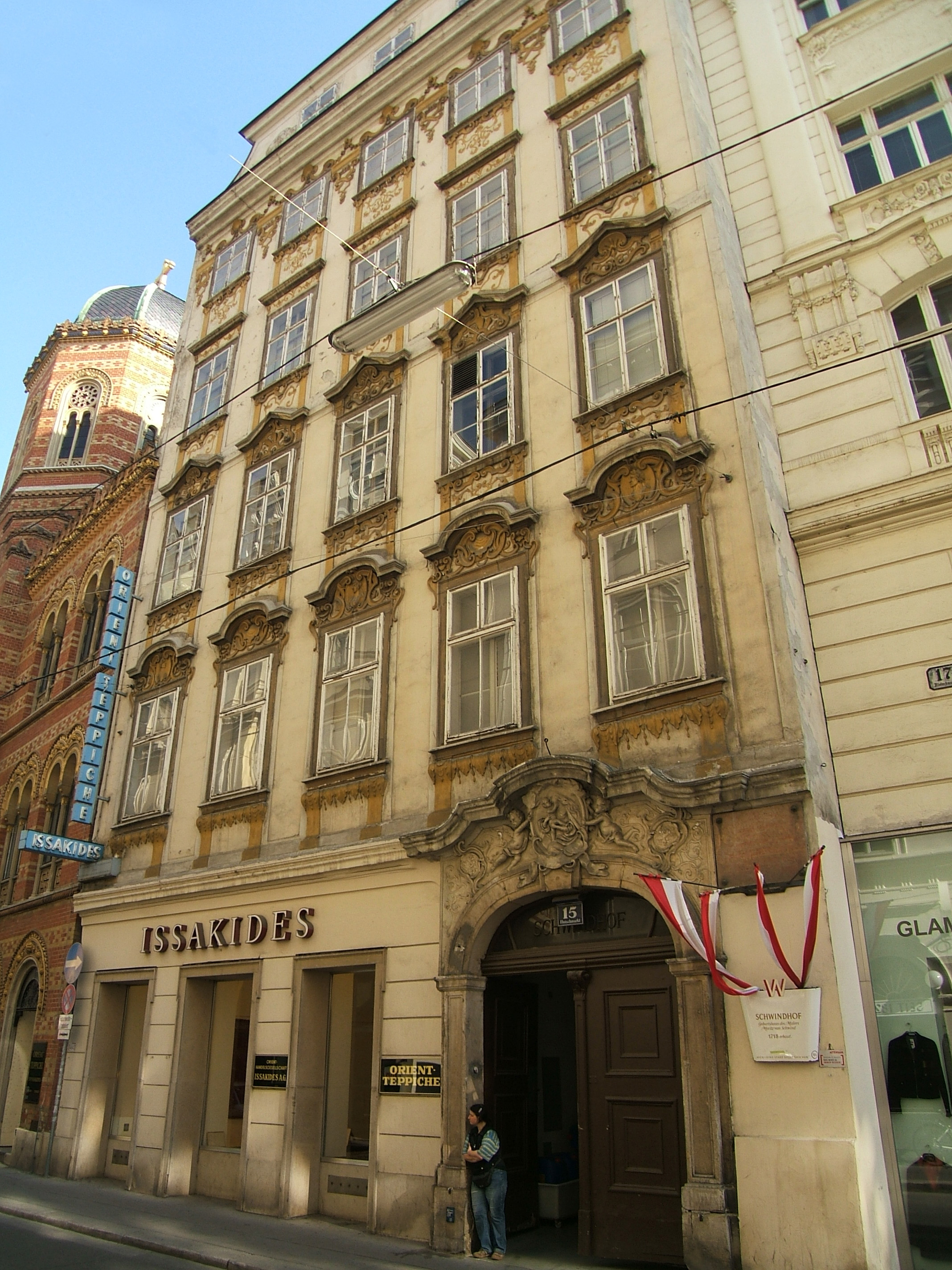 Tenement in the 1st district of Vienna Fleischmarkt 15